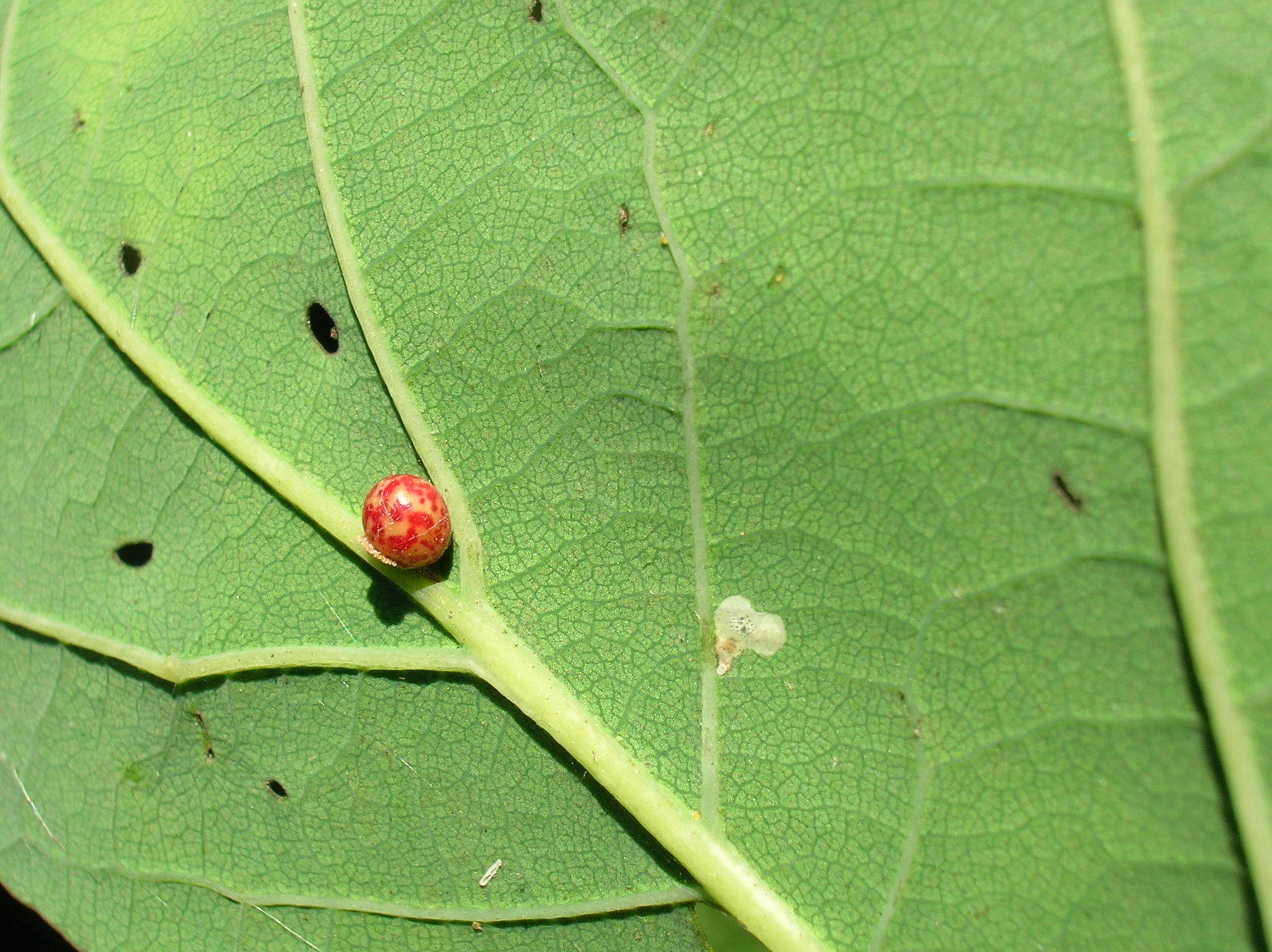 The Oyster Gall (Neuroterus anthracinus) 0n Quercus robur. Eglinton Park, Kilwinning, Ayrshire, Scotland